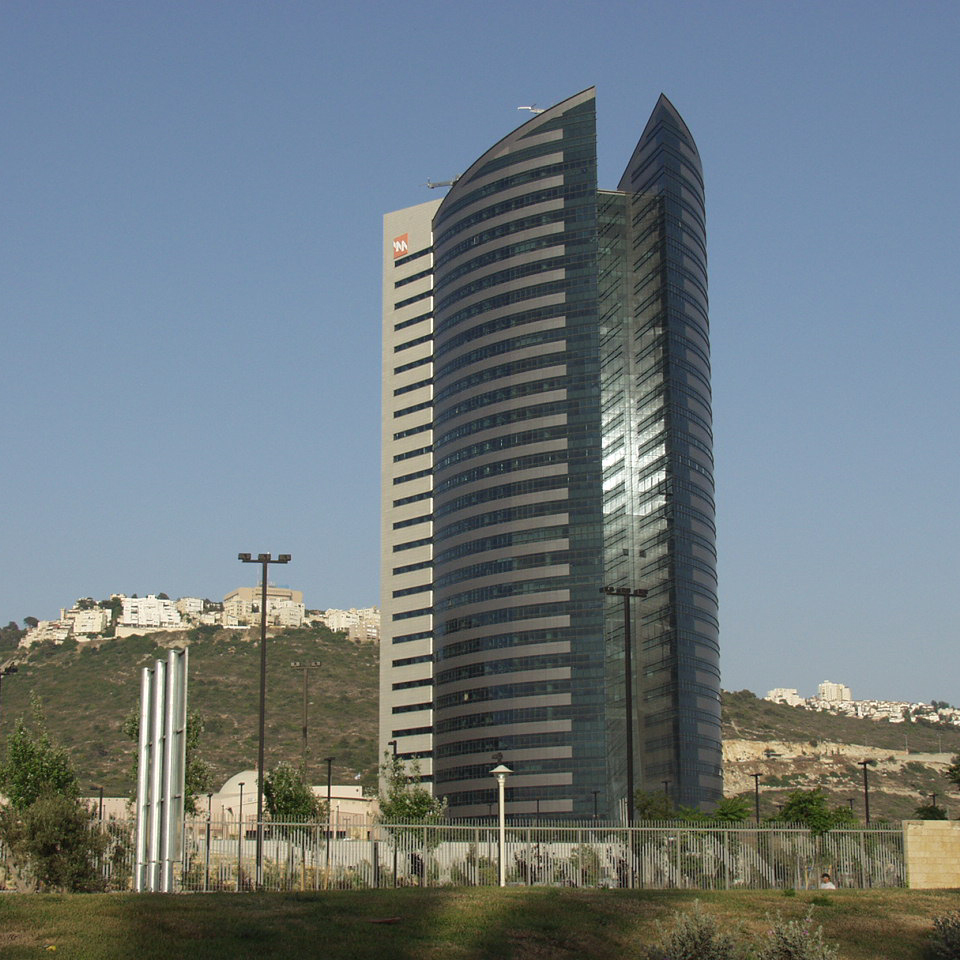 Israel Electric Company tower, outskirts of Haifa